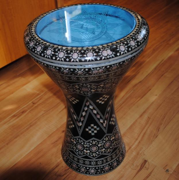 Egyptian Darbouka